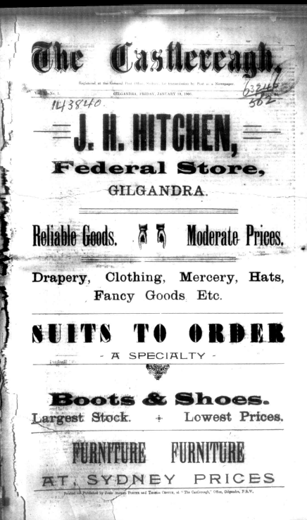 Cover page of an historic newspaper from New South Wales, Australia